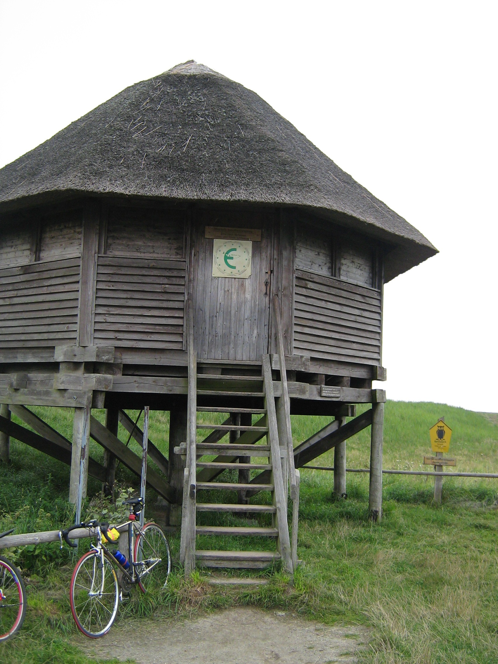 The viewpiont Pramort on peninsula Zingst